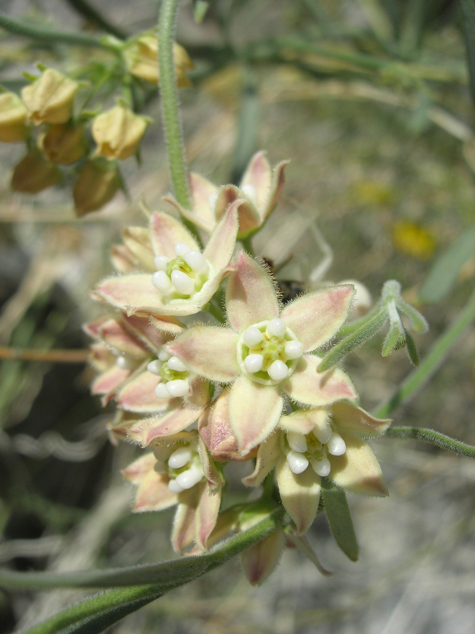 Sarcostemma hirtellum syn. Funastrum hirtellum in Mecca Hills east of Salton Sea, California, USA